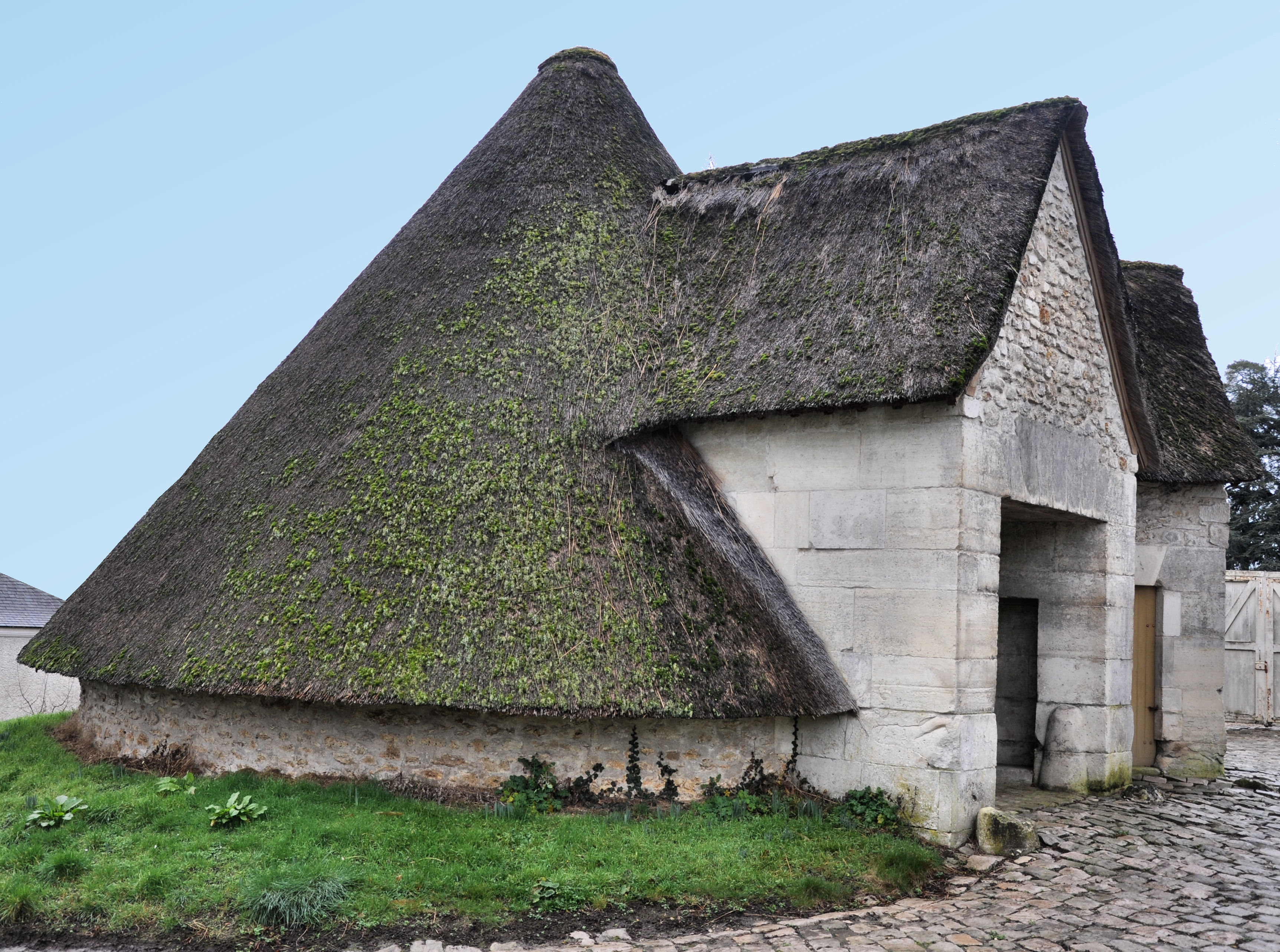 Icehouse in the domain of Petit Trianon